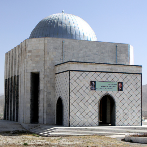 Tomb of former King Zahir Shah